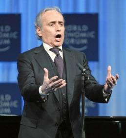 DAVOS/SWITZERLAND, 26JAN11 - Josep Carreras, Opera Singer, Jose Carreras International Leukaemia Foundation, Spain sings during the 'Crystal Award Ceremony' at the Annual Meeting 2011 of the World Economic Forum in Davos, Switzerland, January 26, 2011.. . Copyright by World Economic Forum. by Sebastian Derungs